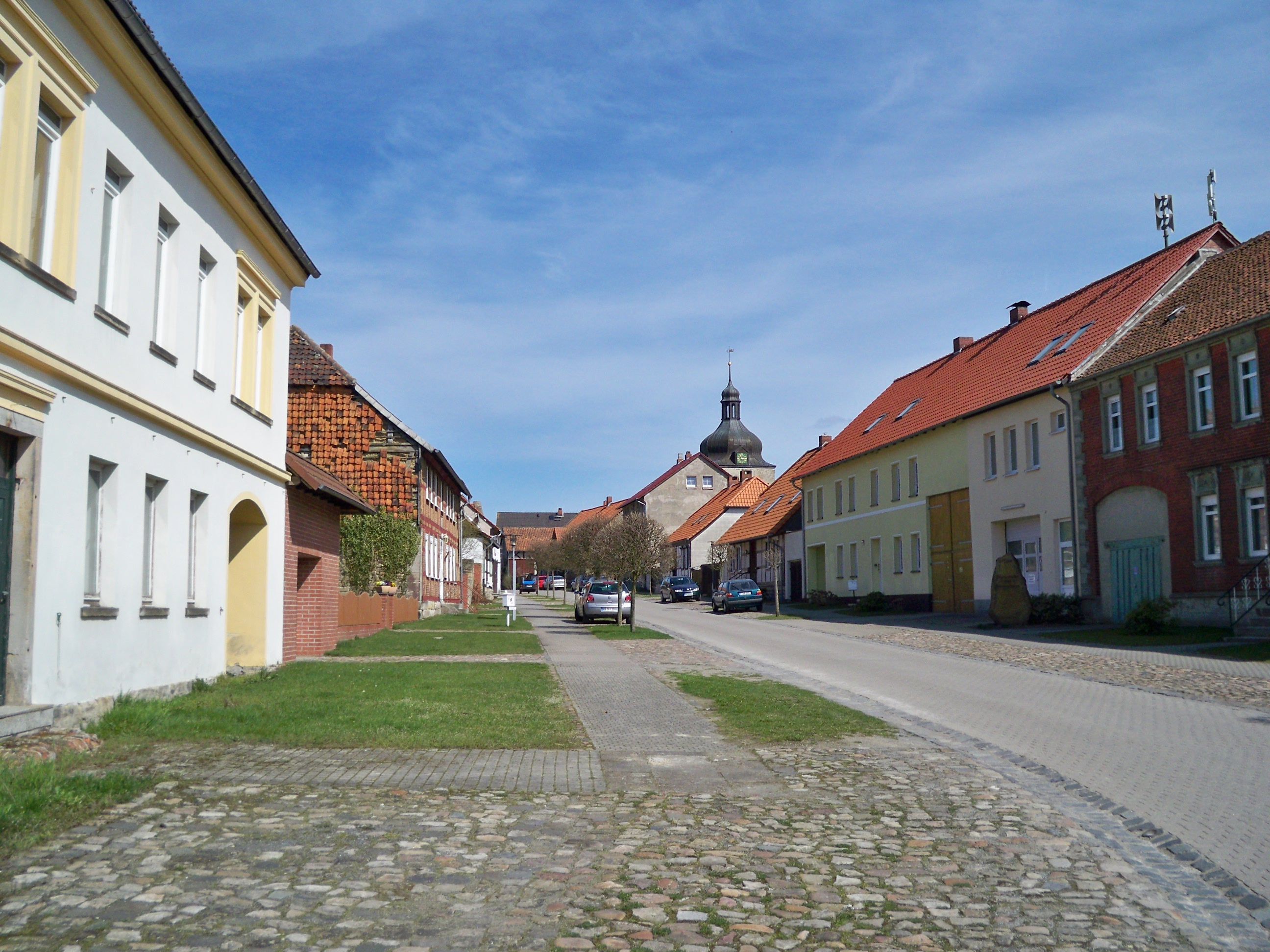 Seggerde, Oebisfelde-Weferlingen, Saxony-Anhalt, village street with church